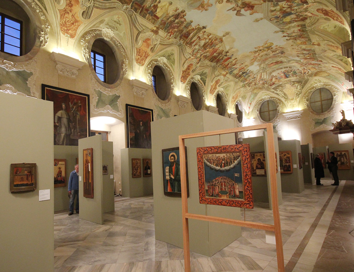 "In the beggining was the Word" exhibition of the Museum of the Russian icon in the halls of the Strahov Monastery in Prague.